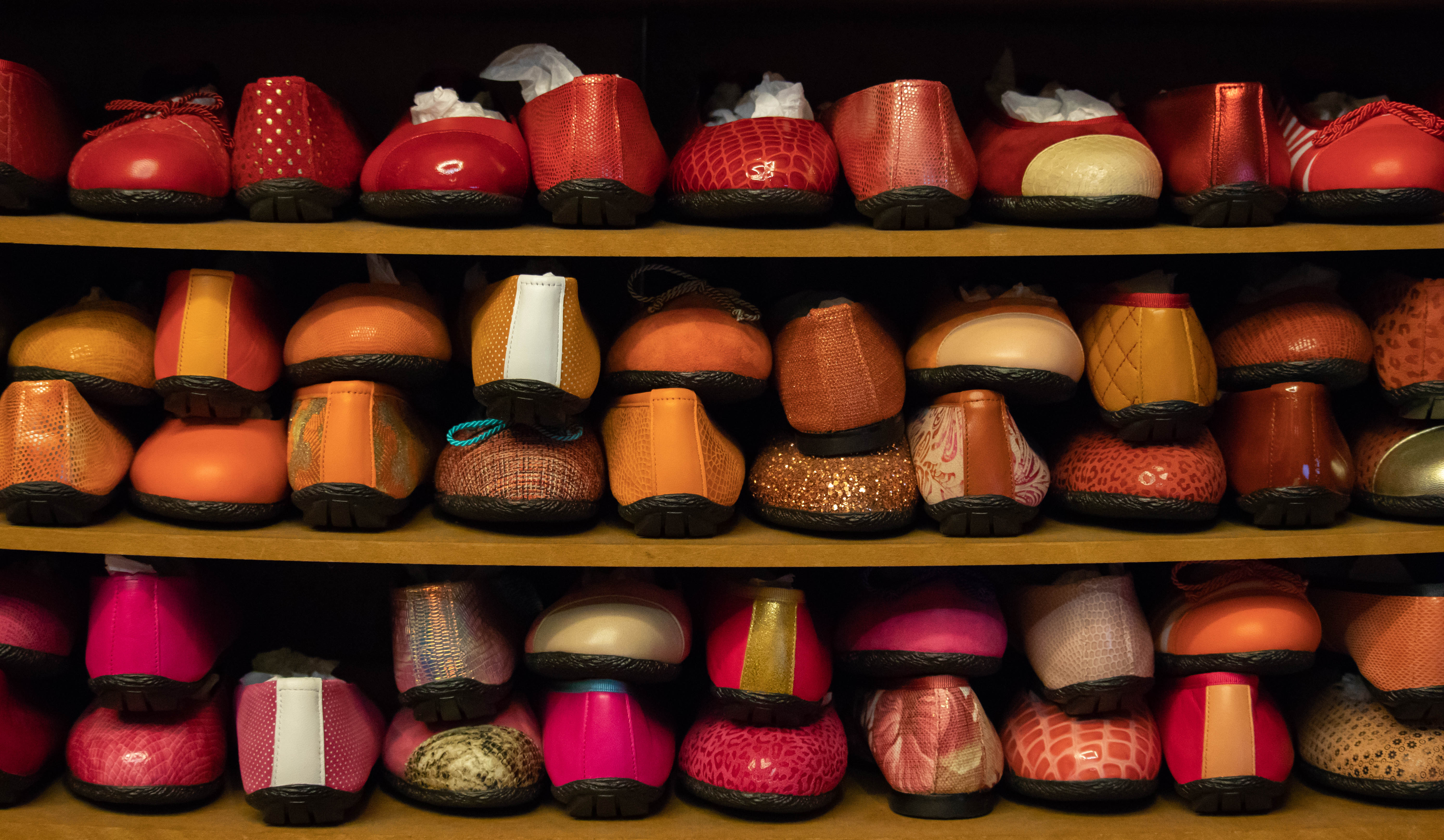 Shoes in a spanish shoe store. Las Ramblas, Barcelona, Catalonia, Spain.